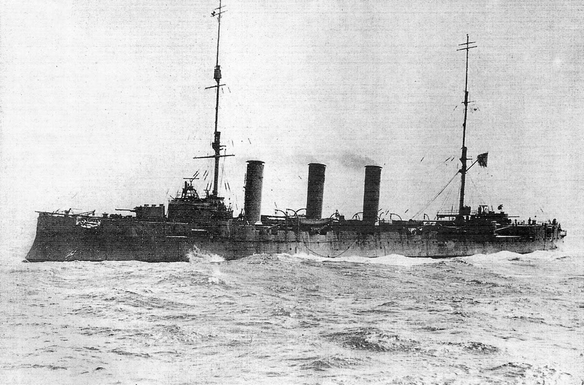 Imperial Russian cruiser Pamyat' Merkuriya.